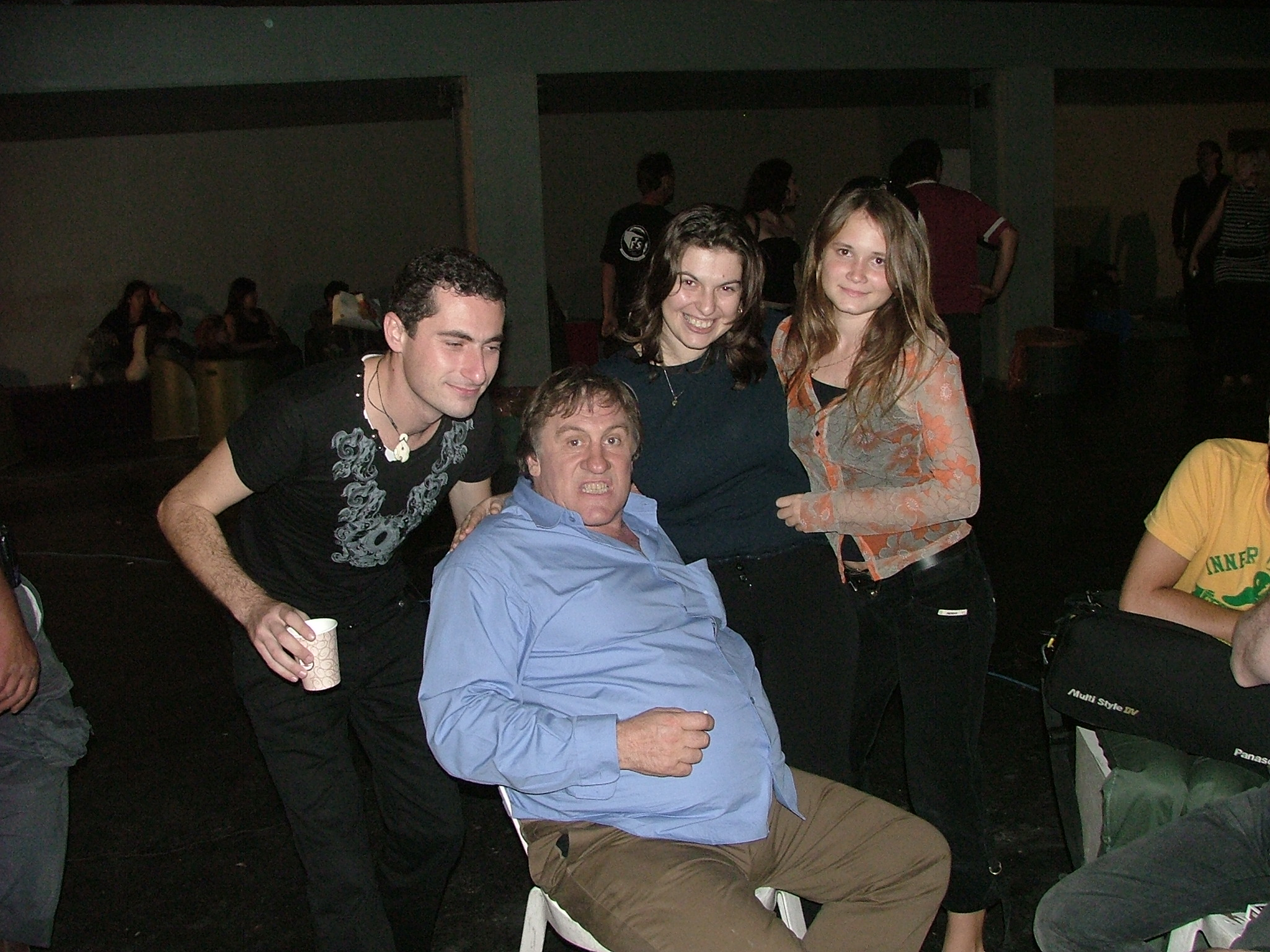 Gerard Depardieu Hello Goodbye movie making Israel 2008 (Made and Copyrighted By Z. Solonik)